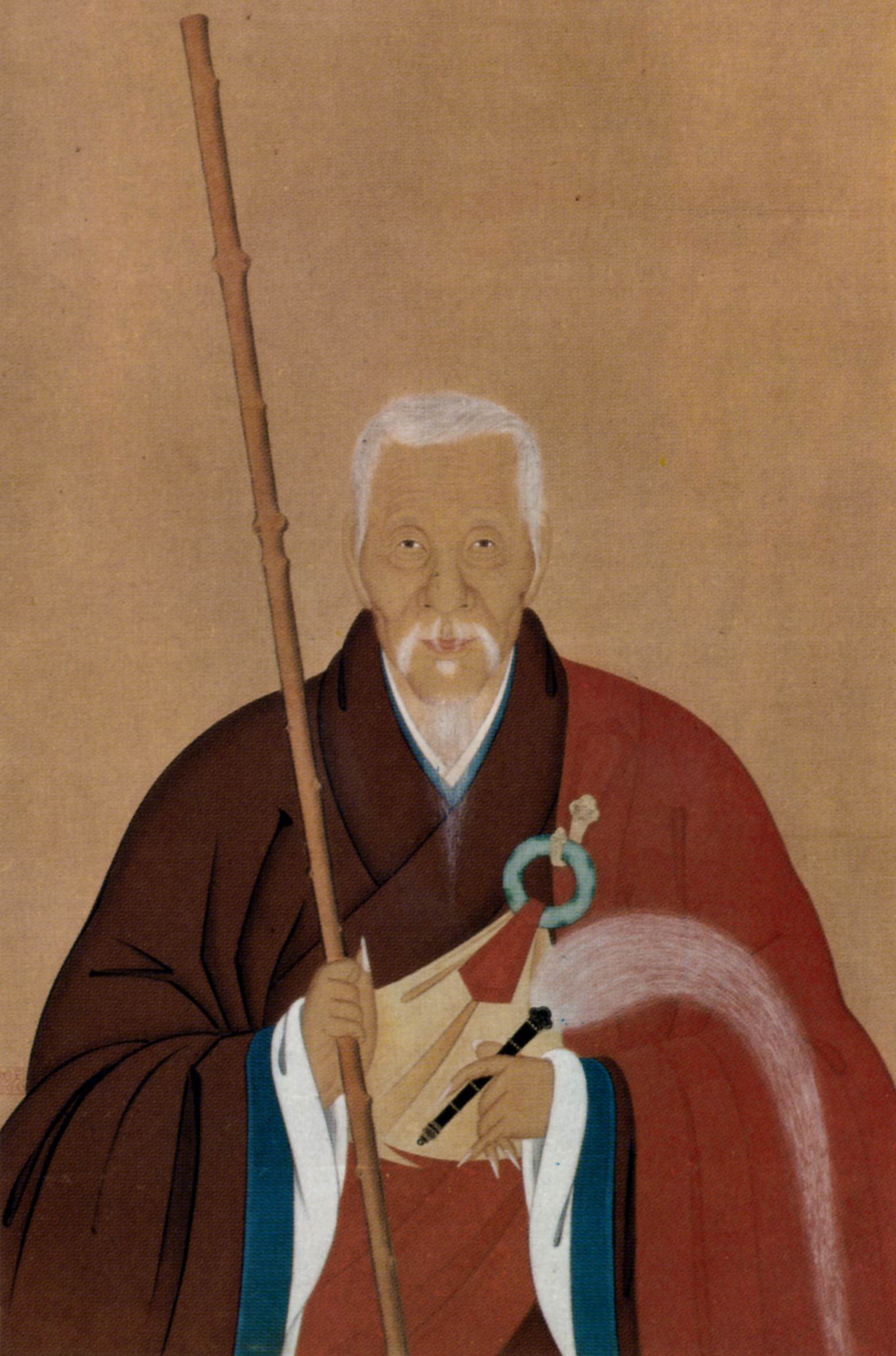 Portrait_of_Ingen_Ryūki_by_Kita_Genki,dated_1671,Edo_period,A_hanging_scroll,Color_on_paper,owned_by_Manpukuji,an_important_cultural_property_of_Japan.